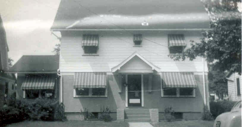 House in Roselle New Jersey